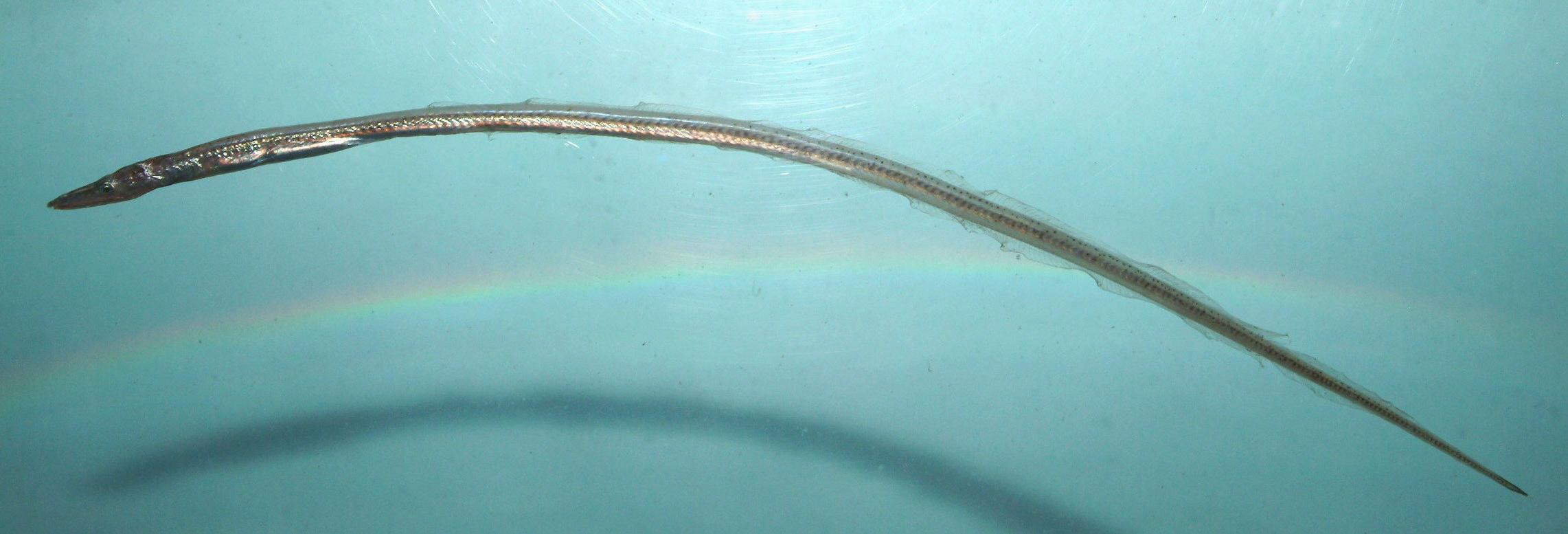 Blacktail pikeconger ( Hoplunnis diomediana ). Gulf of Mexico.